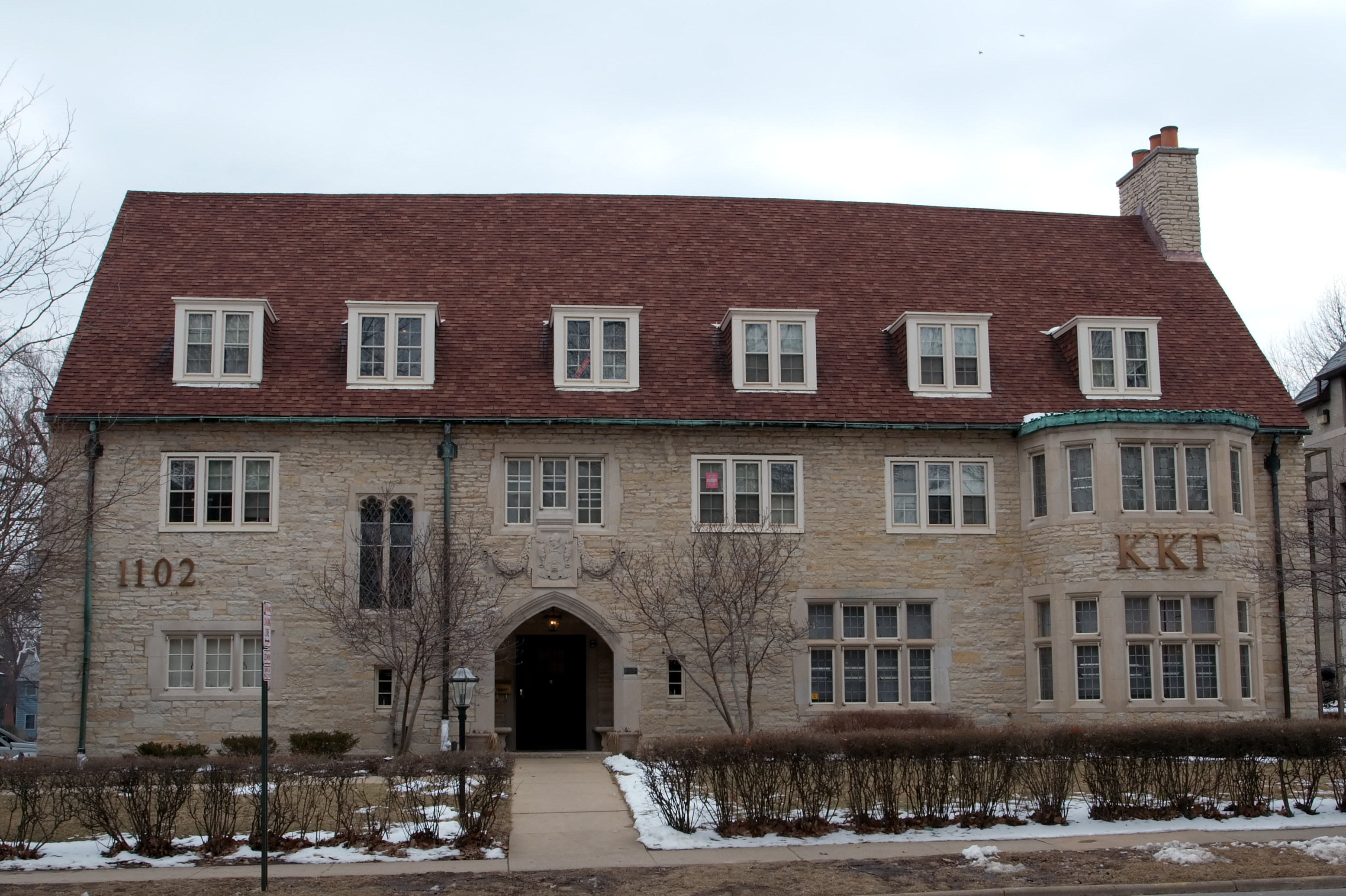 Urbana, IL Kappa Kappa Gamma Sorority House (added 2004 - Building - #04000074) 1102 S. Lincoln Ave., Urbana Historic Significance: Architecture/Engineering, Event Architect, builder, or engineer: Milman, Ralph E., Stoolman, A.W. Architectural Style: Late 19th And 20th Century Revivals, Other Area of Significance: Education, Architecture Period of Significance: 1925-1949, 1950-1974 Owner: Private Historic Function: Education Historic Sub-function: Educational Related Housing Current Function: Education Current Sub-function: Educational Related Housing